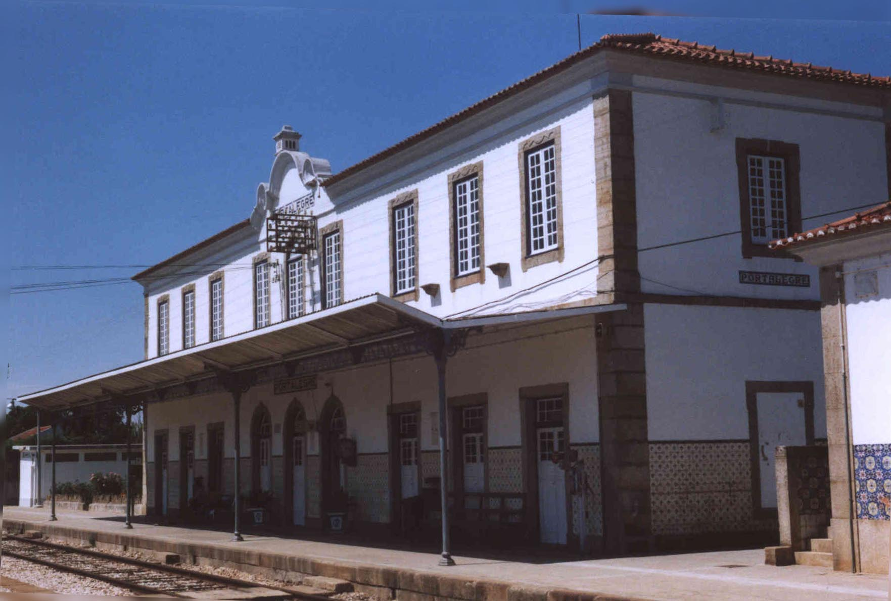 Train Station of Portalegre